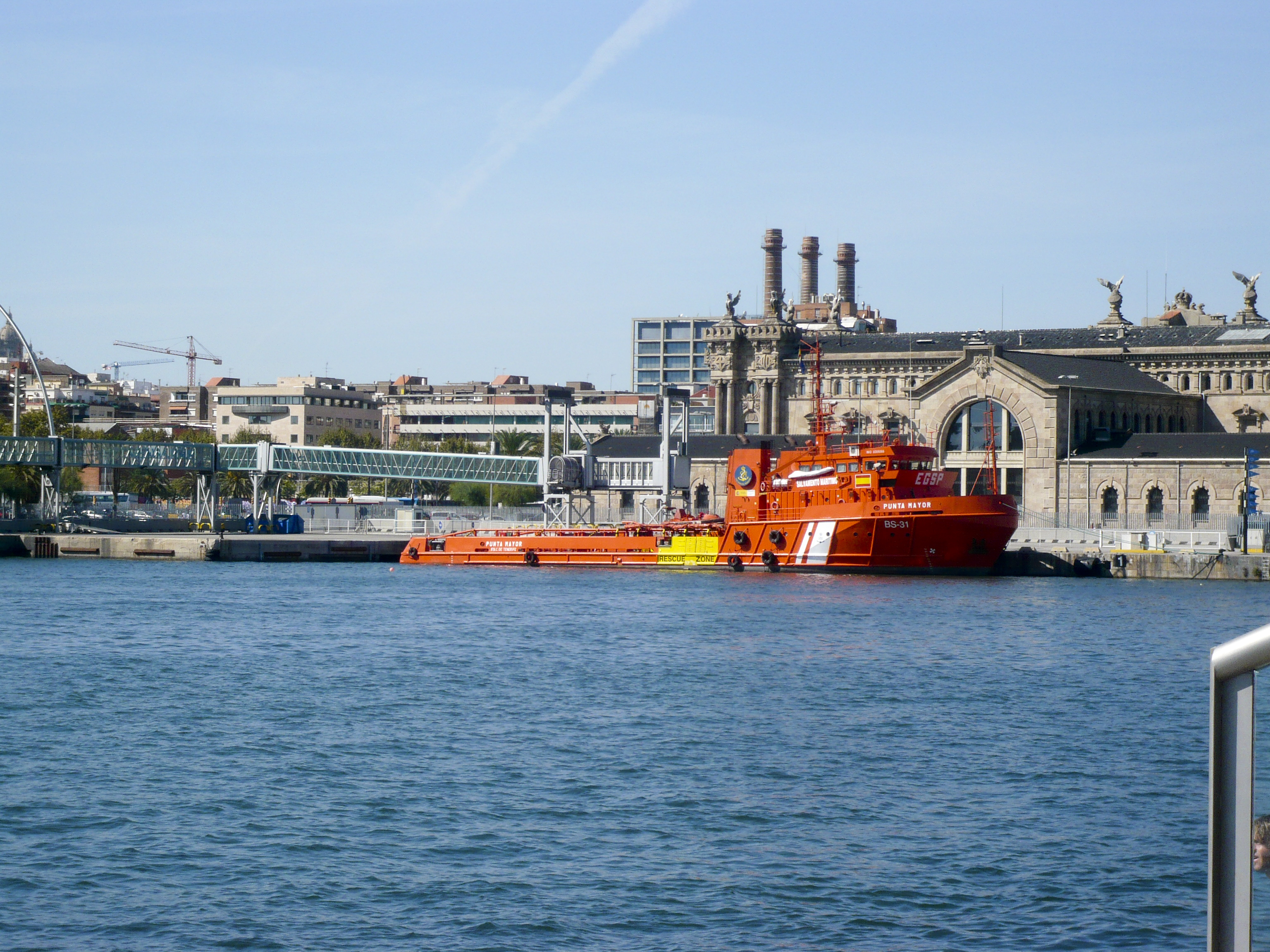 Punta Mayor in Barcelona Harbour IMO Number: 8305066 MMSI Number: 224564000 Callsign: EGSP Length: 60 m Beam: 13 m